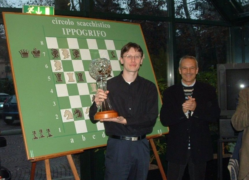 photo of Zoltan Amasi, winner of 50th Reggio Emilia tournament.